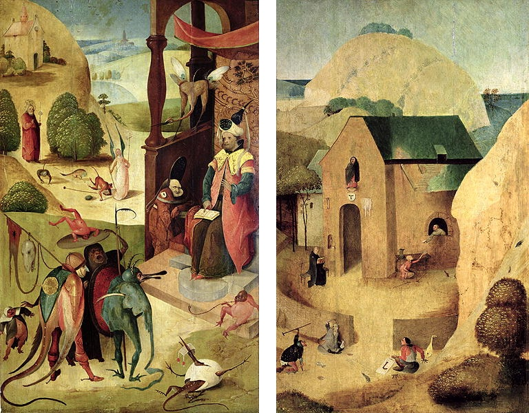 Two sided painting.